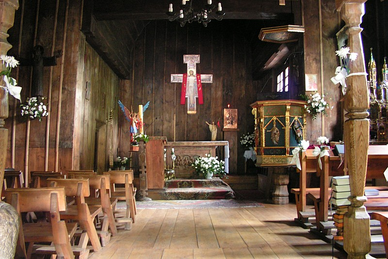 Interior of the wooden St. Michael Archangel's church in Katowice. The church was built in 1510 in Syrynia and moved to Katowice in 1938.